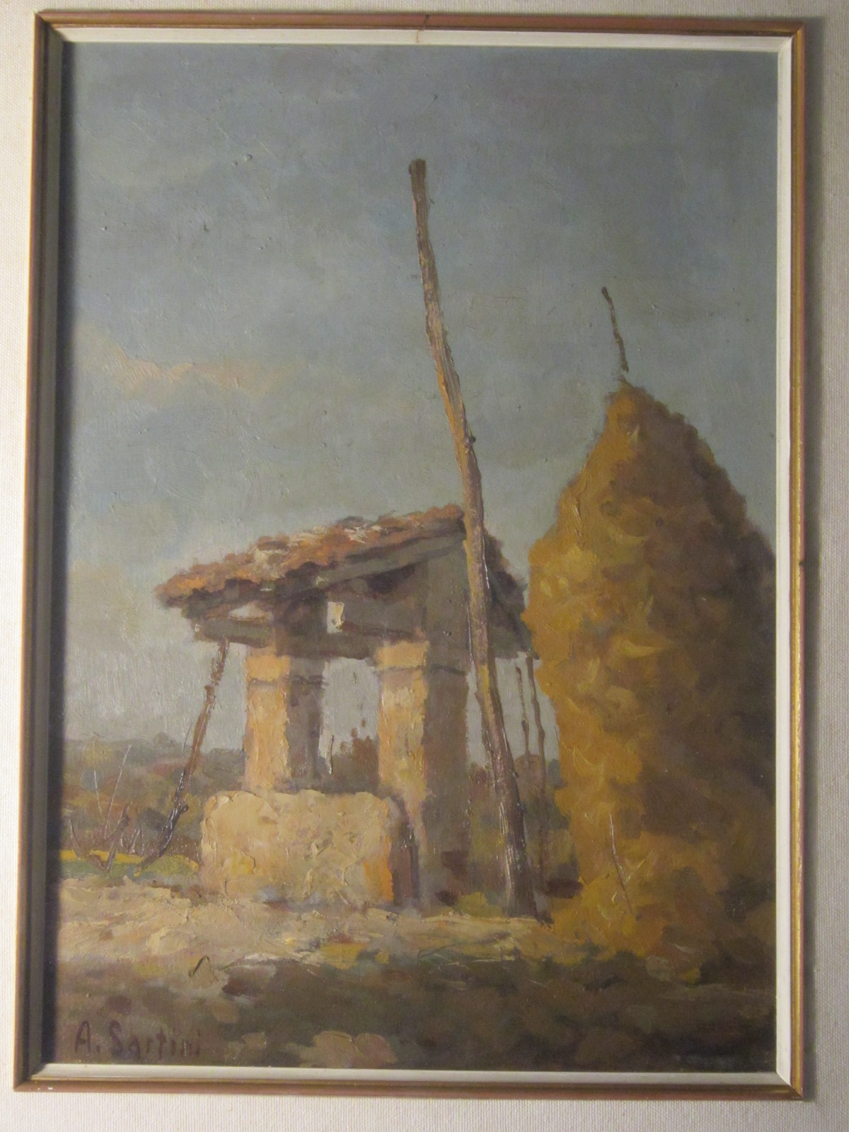 This is a painting of Antonino Sartini